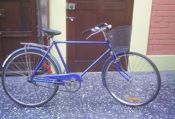 Bicycle.